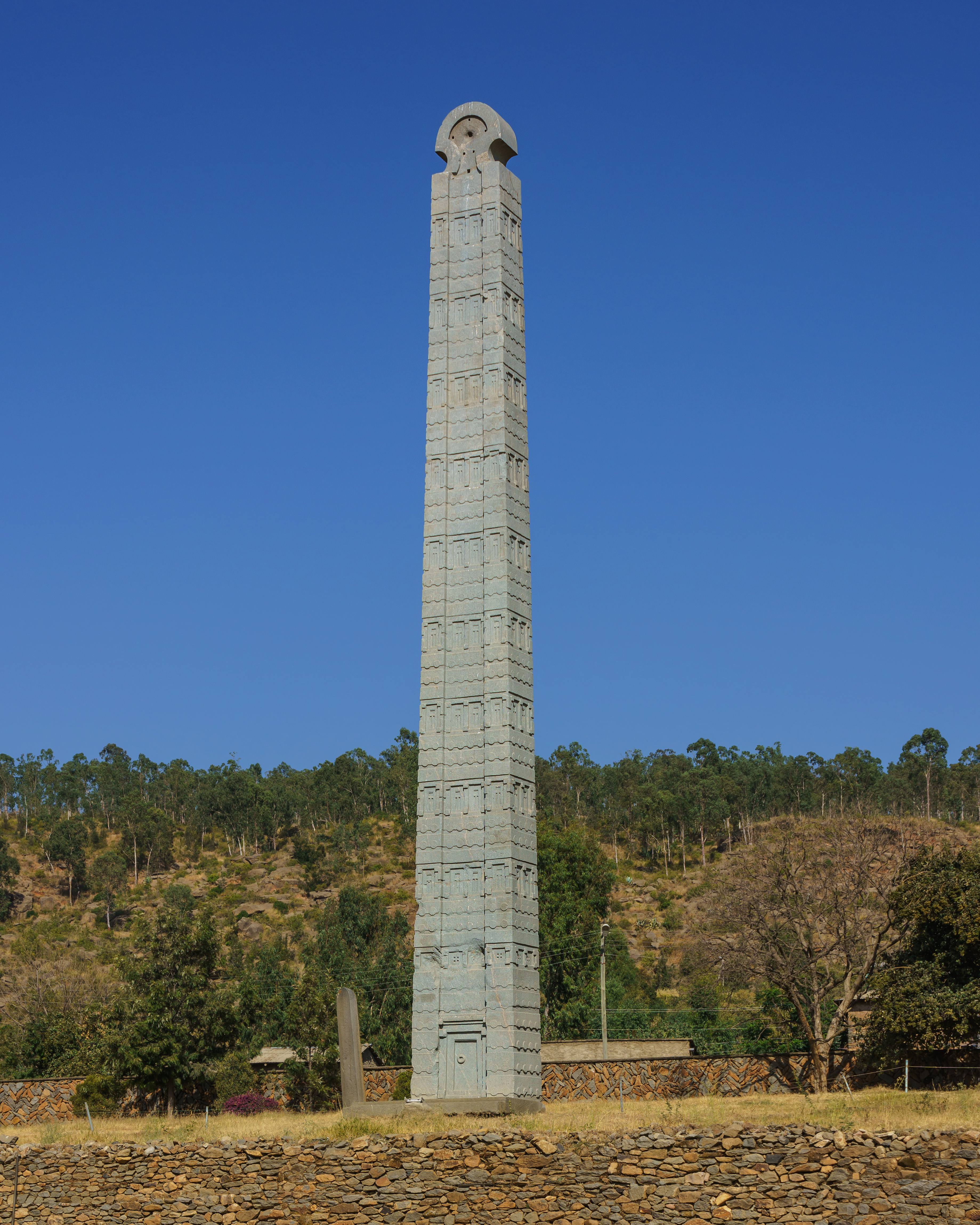 Northern Stelae Park in Aksum, Tigray Region, Ethiopia